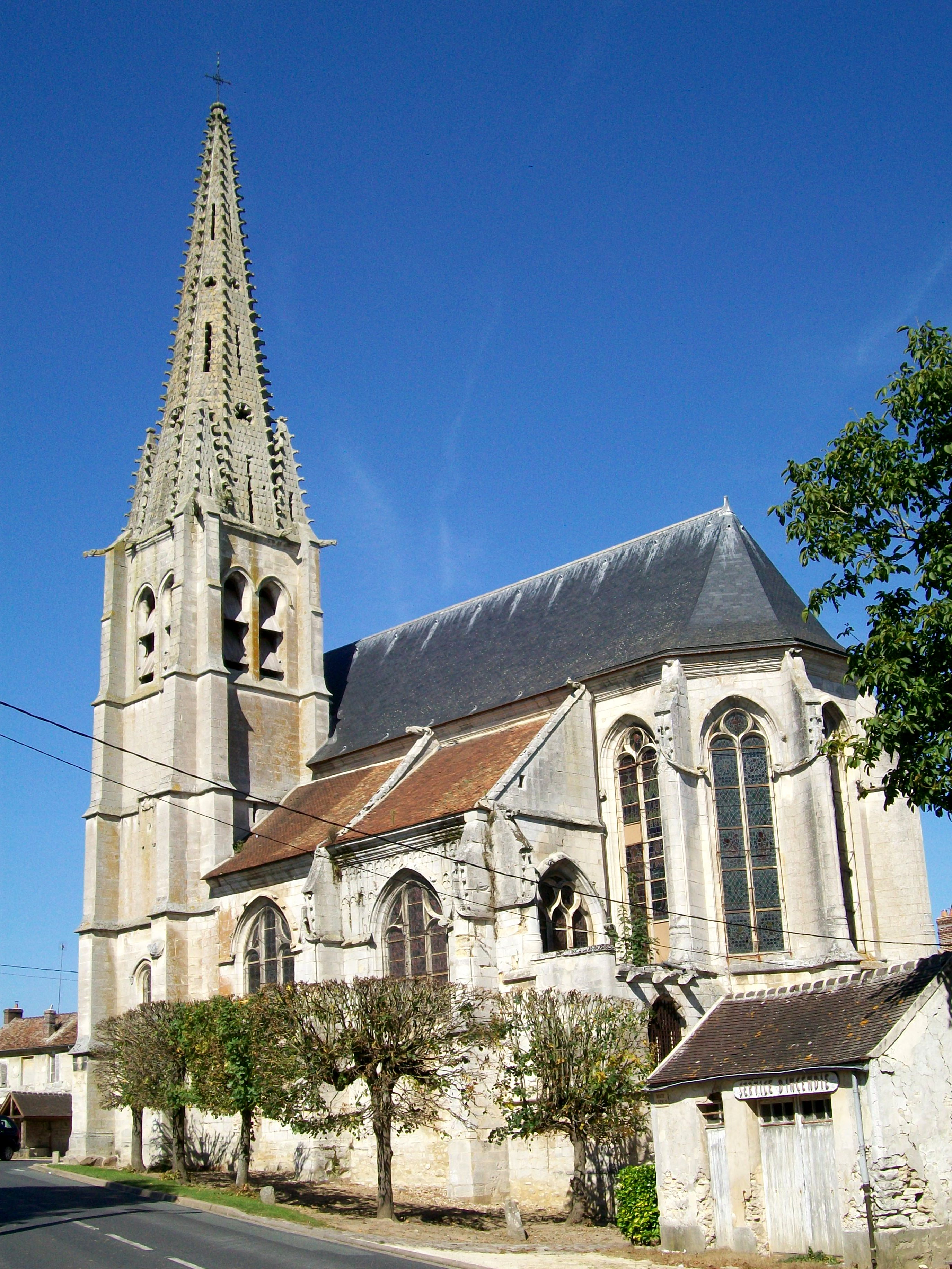 Eglise paroissiale Saint-Martin, depuis la route de Nanteuil-le-Haudouin.